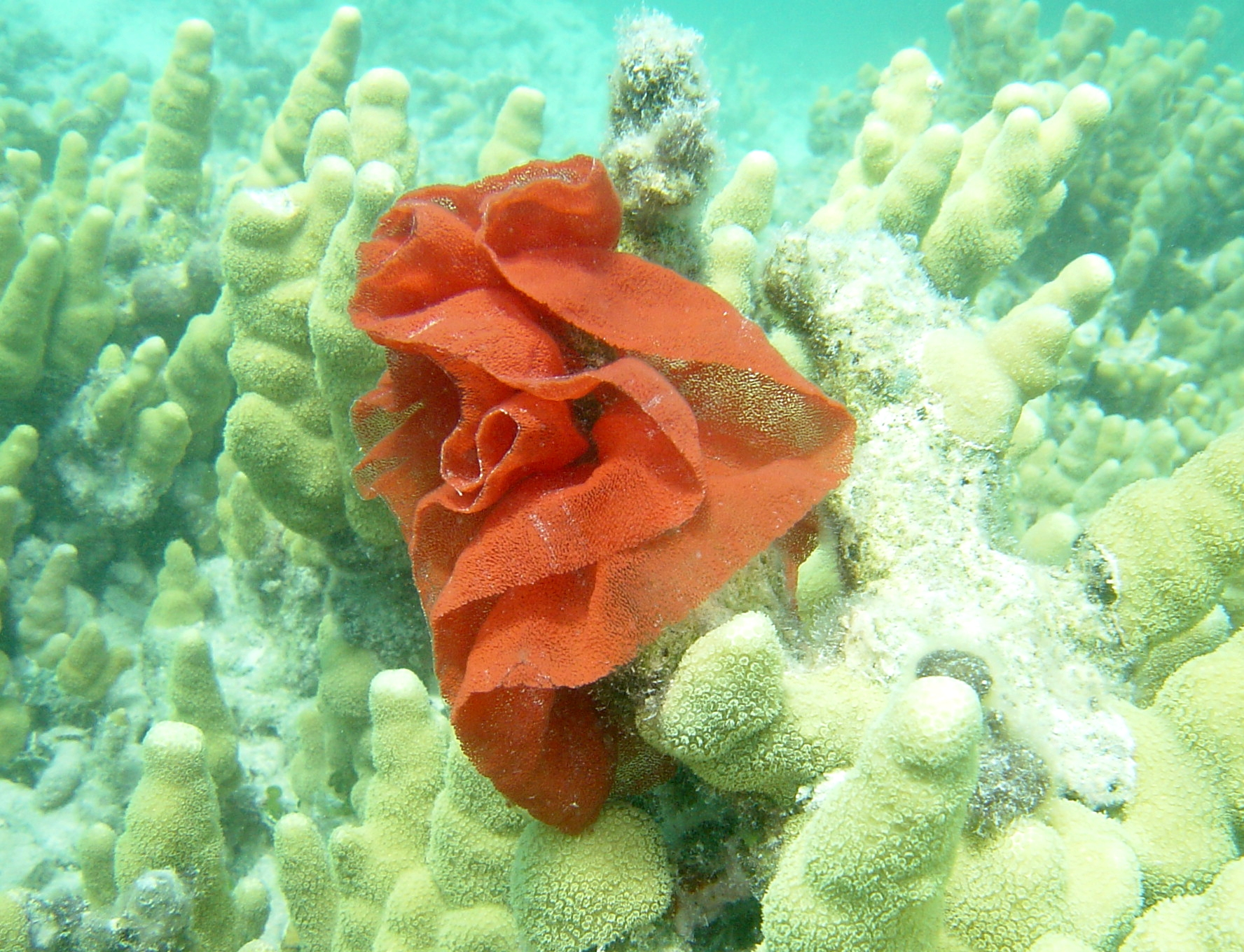 Spanish dancer nudibranch (Hexabranchus sanguineus) eggs Image ID: reef0665, NOAA's Coral Kingdom Collection Location: Northwest Hawaiian Islands